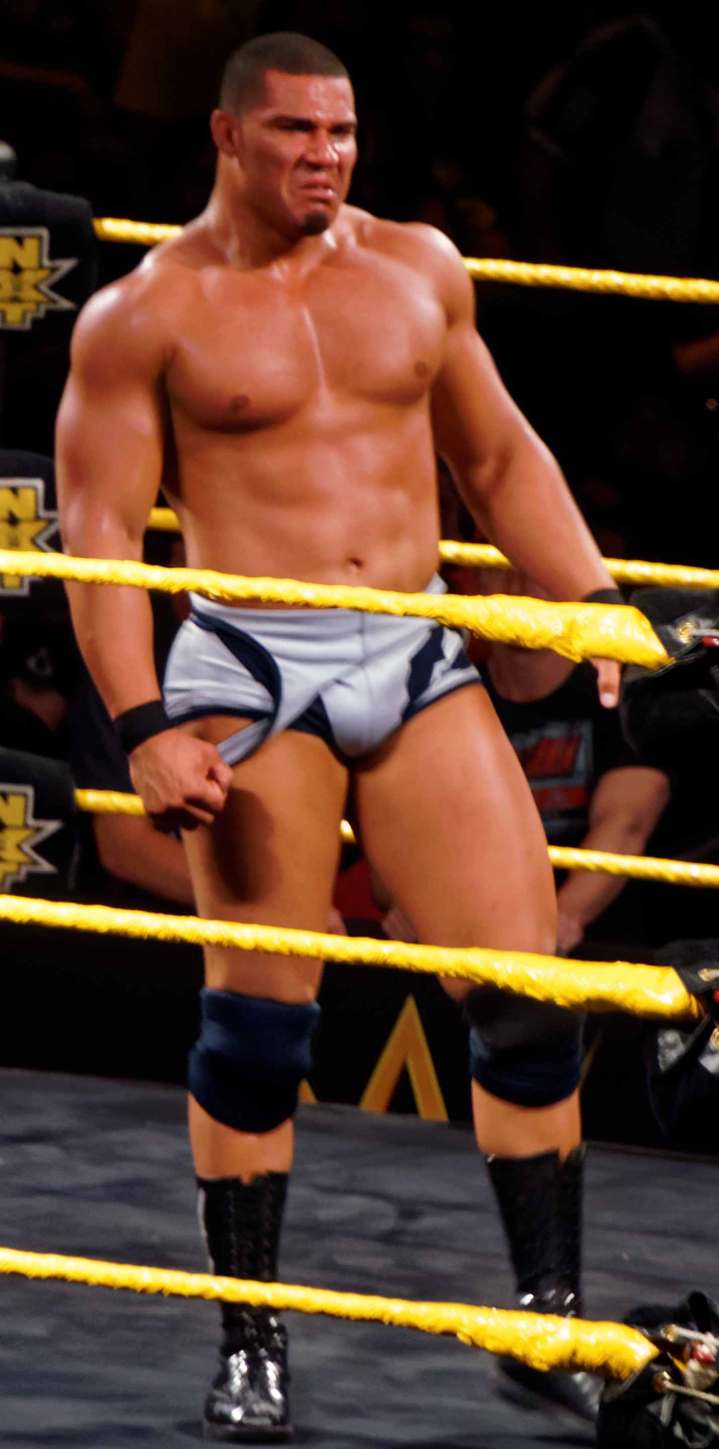 Jason Jordan at NXT event in March 2015